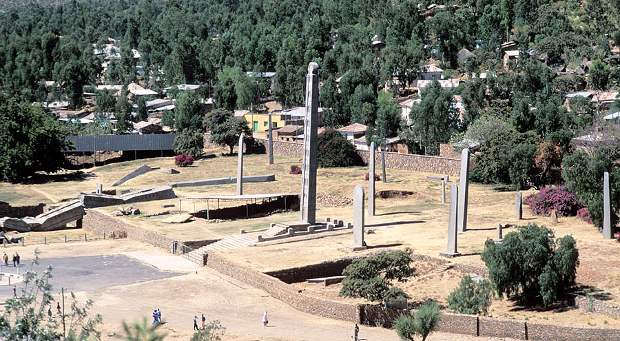 The Northern Stele Park at the town of Axum, Ethiopia.